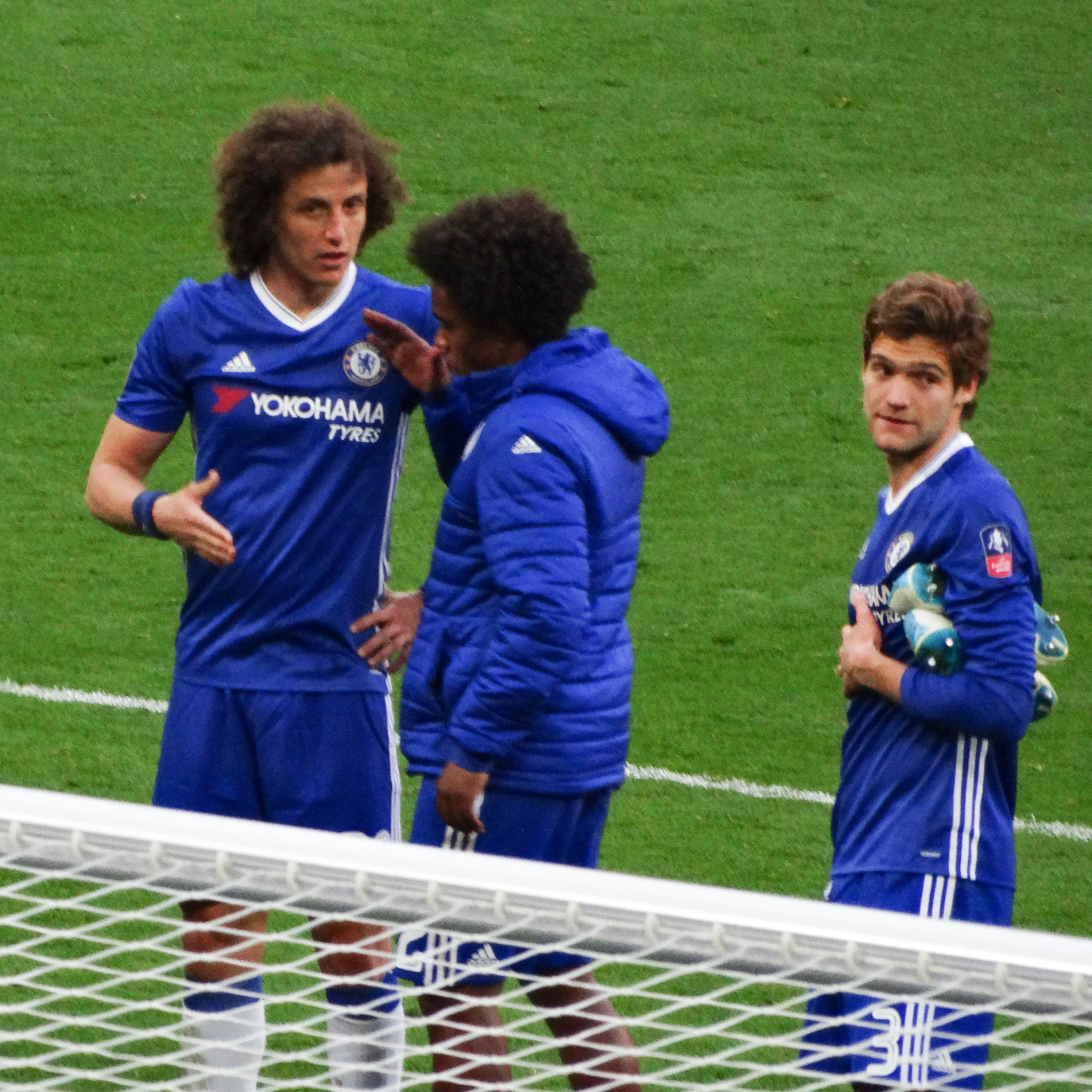 FA Cup SF 22.4.17